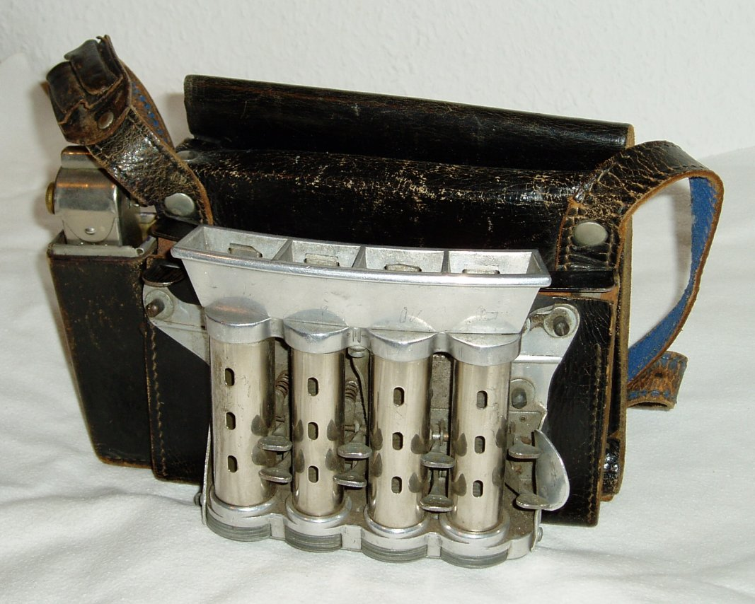 Schaffnertasche mit Münzmagazin, umgangssprachlich Galoppwechsler; Entwertestempel mit Zeiteinstellrad. Conductor´s bag with a coin dispenser, gallop-dispenser in colloquial language. My own photo from 17-jun-2005